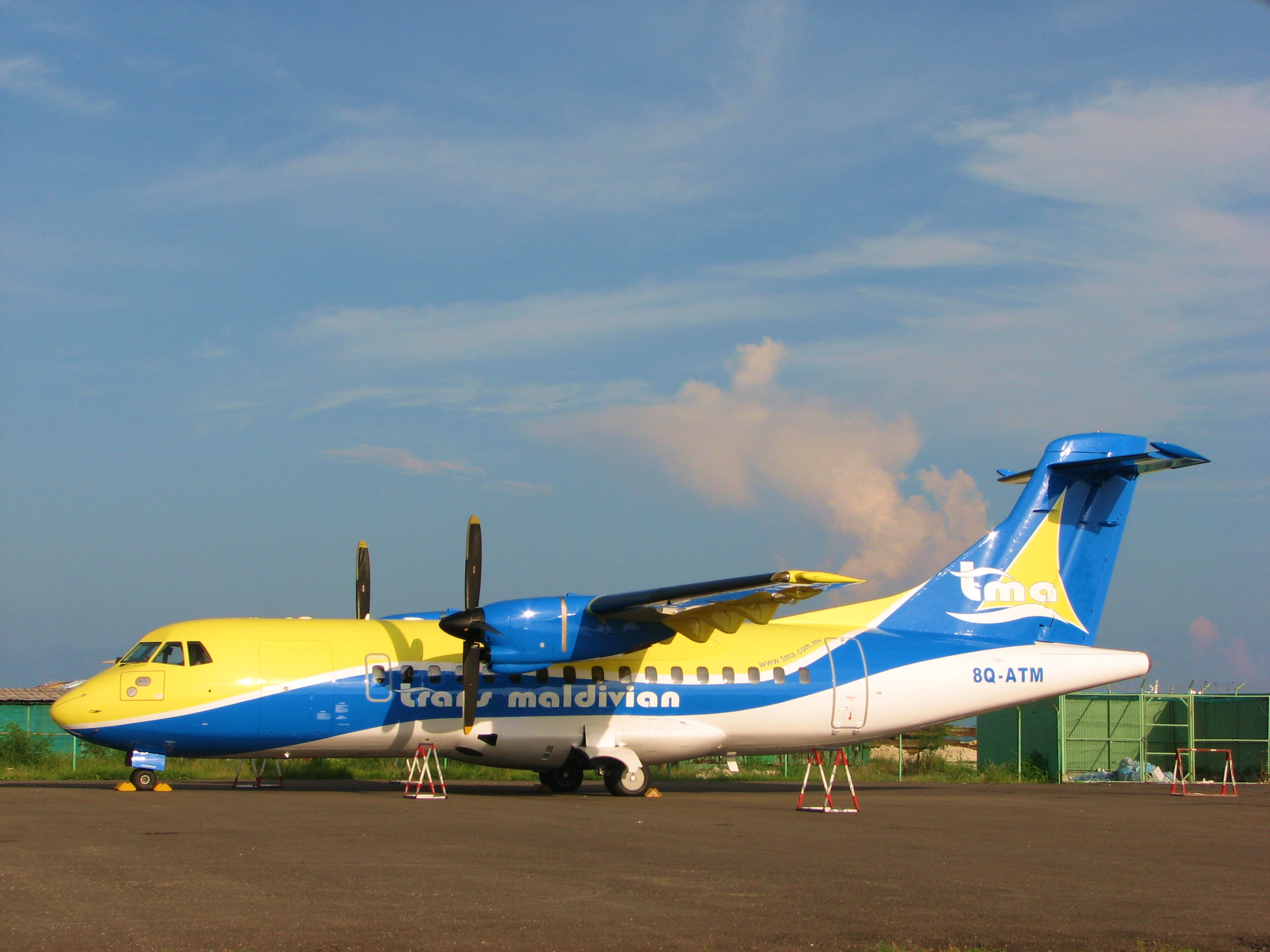 Trans Maldivian Airways ATR 42-320 8Q-ATM . The ATR, formerly N11835 with Continental Connection, ferried into Maldives this April from Cocos and parked at Male International Aiport waiting for its first commercial flight. This aircraft was built in 1990.